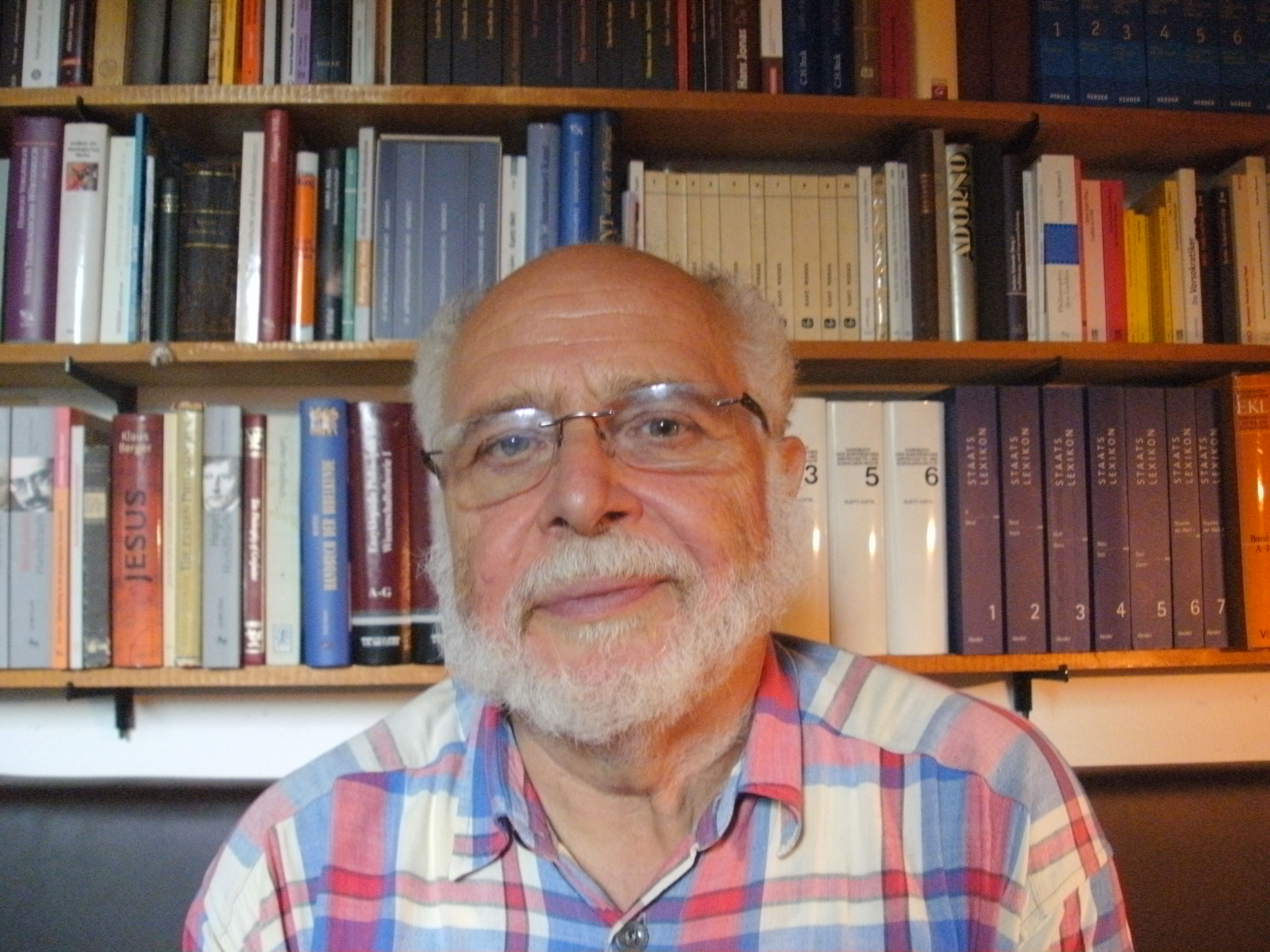 Hans G. Nutzinger, 2012